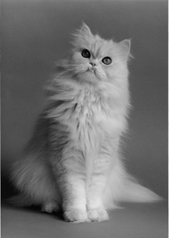 This image is in the public domain. It is of my cat, Sinclair.